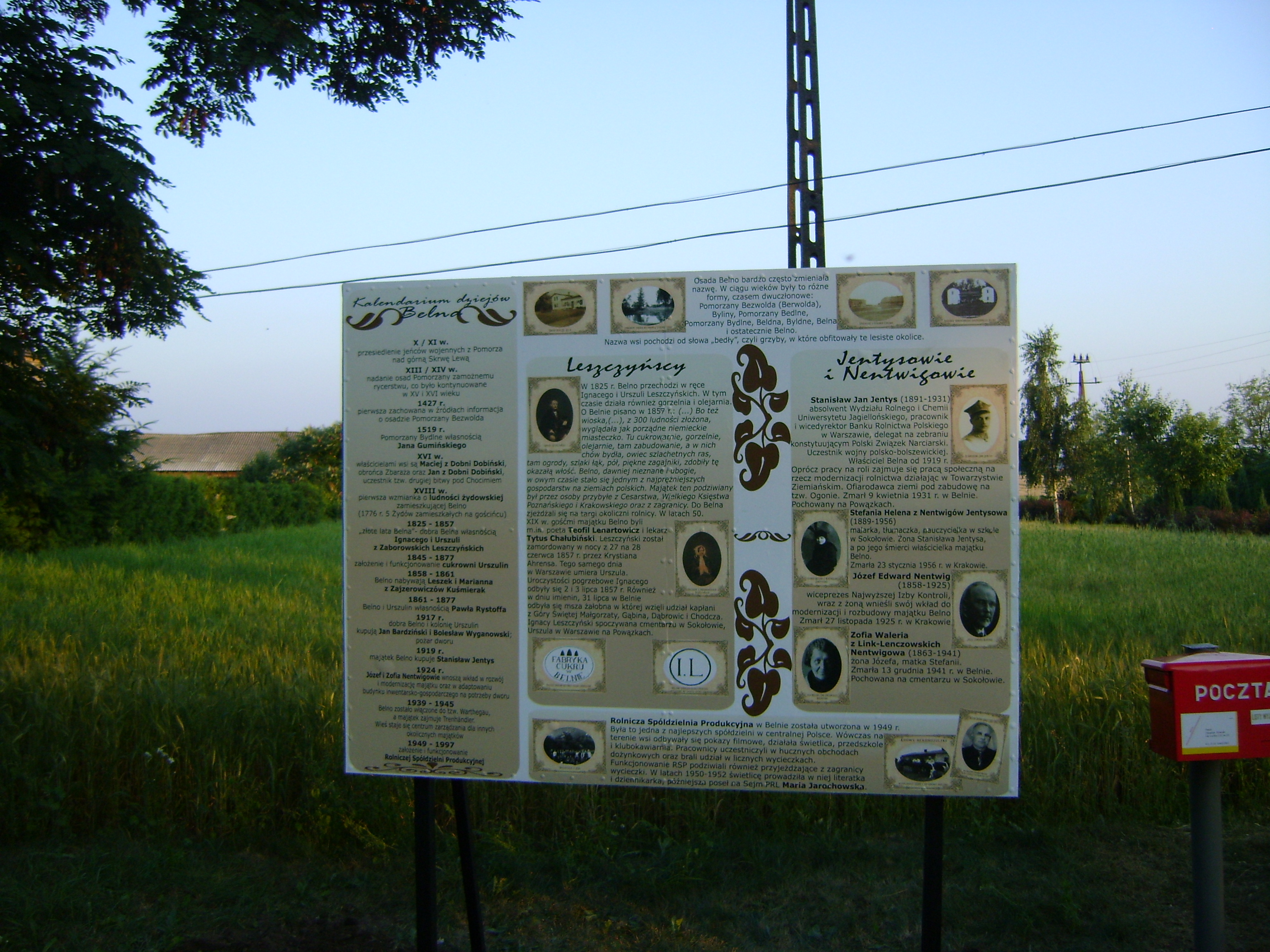 Bulletin of the history of Belno in the community Gostynin